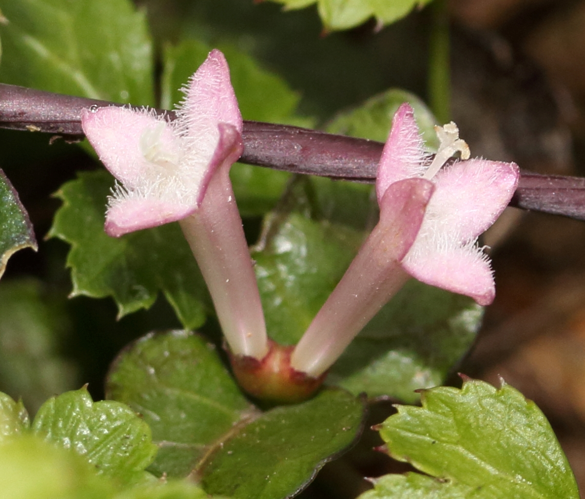 2 flowers of Mitchella undulata, in Mount Kanmuri, Japan.